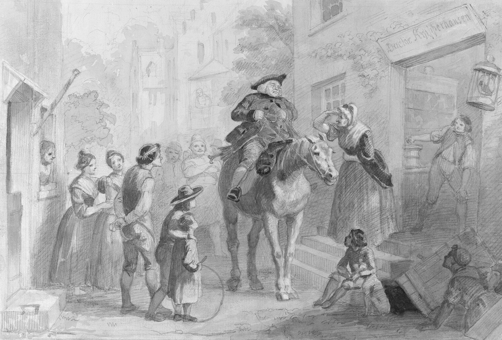 Watercolor; Drawings